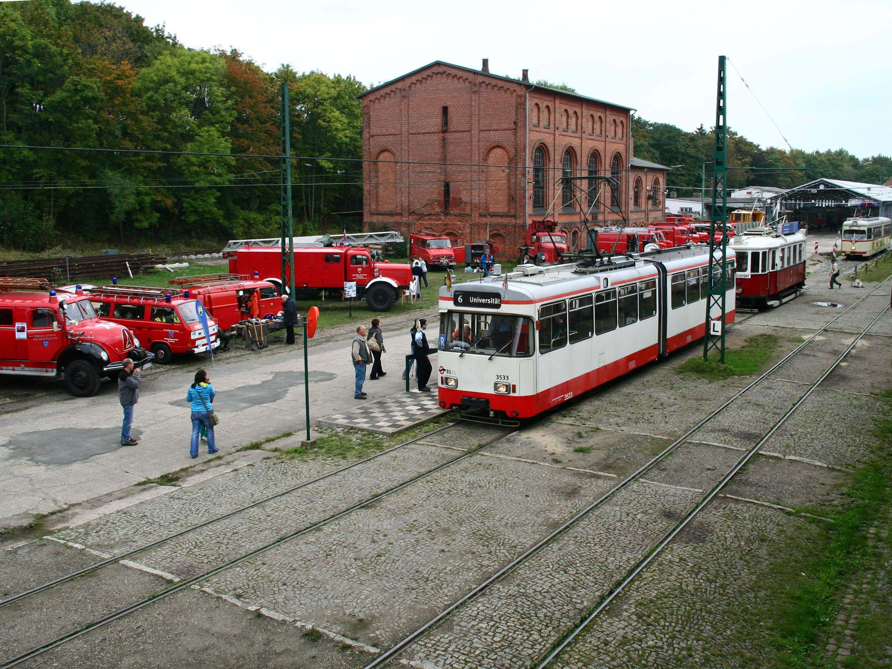 View across a part of the site of the Hanover Tram Museum on "Feuerwehrtag" 2013 (firebrigade day). In the middle: the old powerhouse, in the background on the right: the open tram hall, built in 2006.